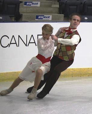 Picture taken at the Fairgrounds Arena in London Ontario, during ice dance practice at 2013 World Figure Skating Championships.